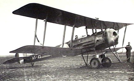 Point Cook, Vic. Avro 504-K rotary-engined trainer A3-45 of No 1 Flying Training School RAAF Point Cook. This was one of the gift aircraft provided by Britain to Australia following the cessation of World War I which formed a large part of the initial equipment of the Royal Australian Air Force when it came into being.